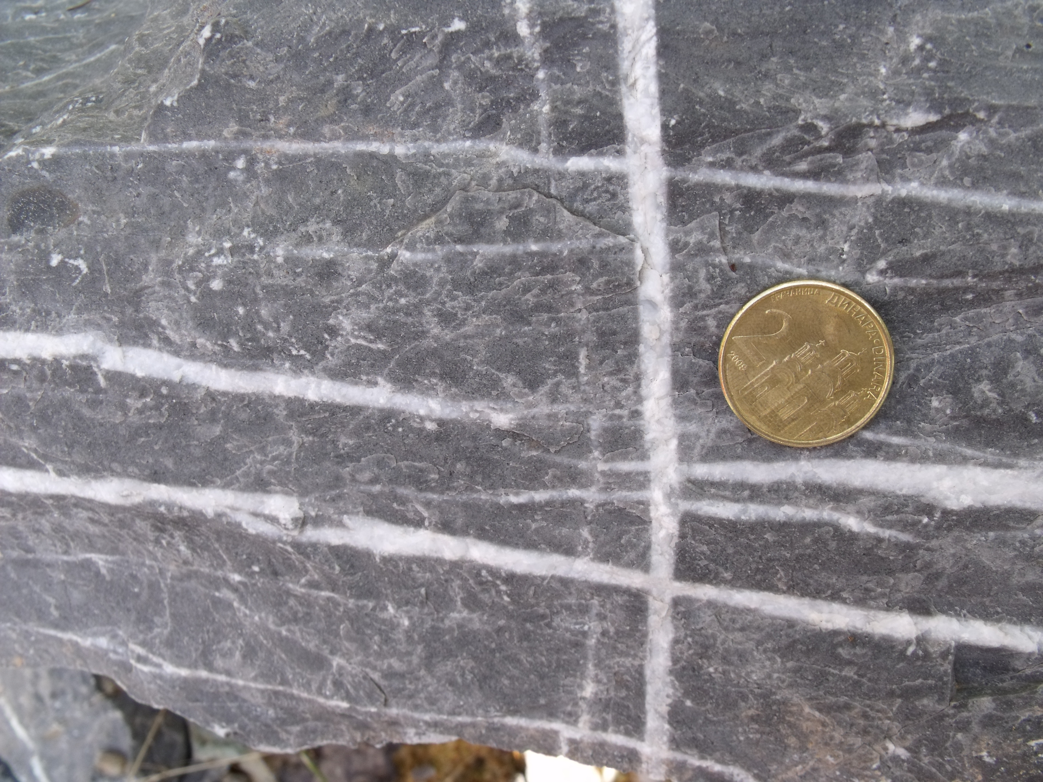 Two systems of tension joints filled with calcite, western Serbia